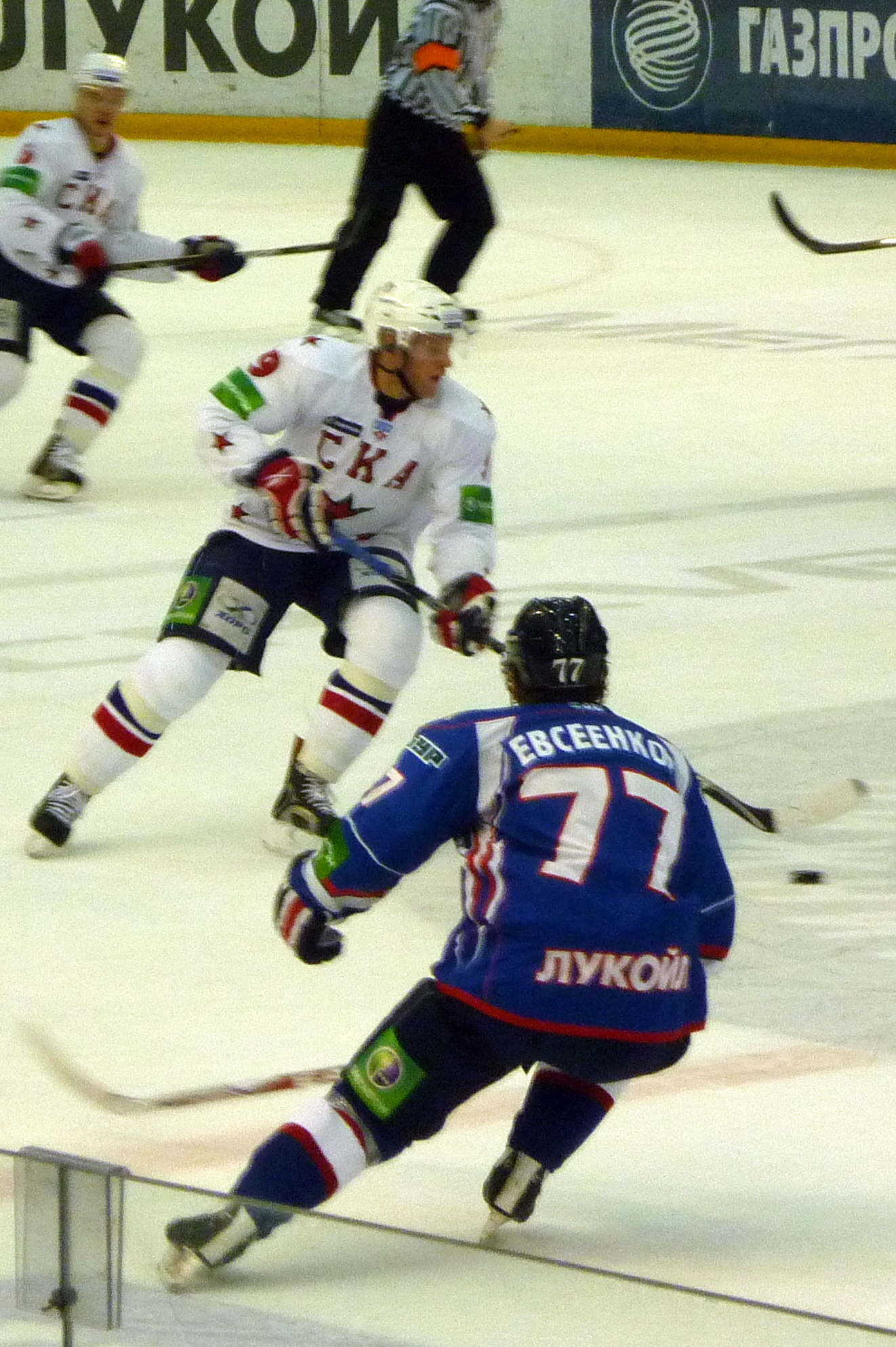 Tony Martensson (white) and Alexander Yevseyenkov (blue)